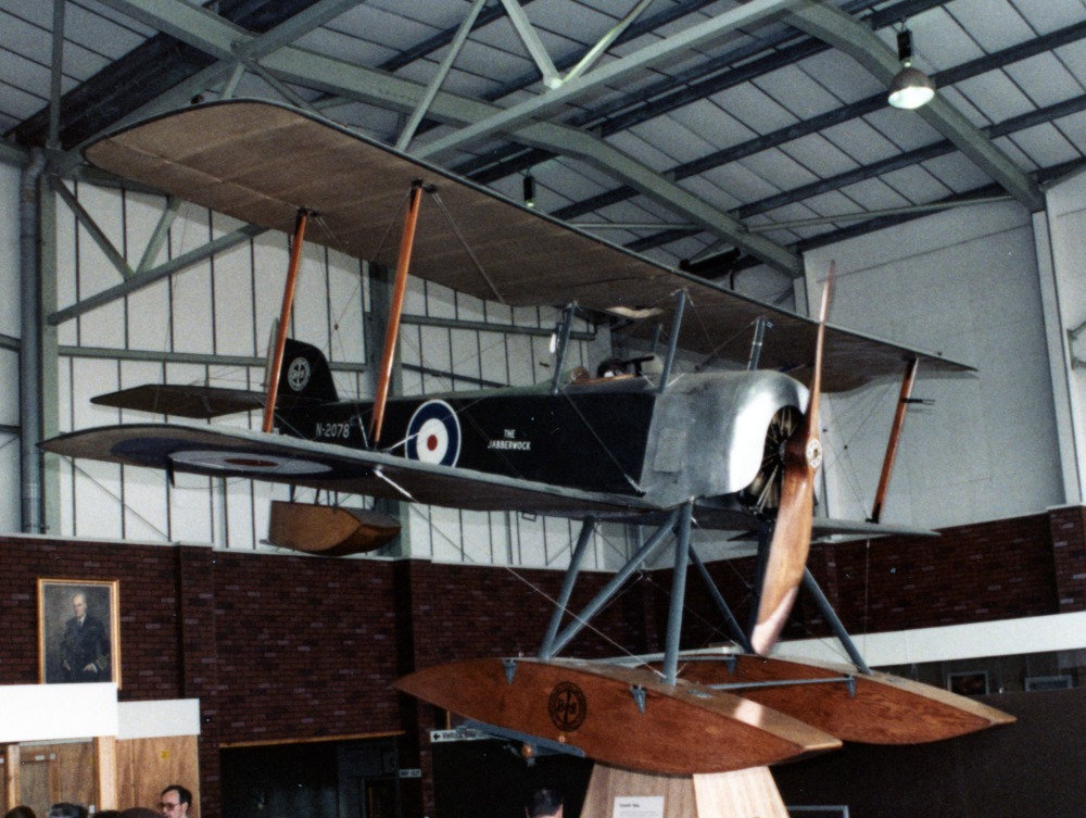 PictionID:42252236 - Title:Sopwith Baby Sopwith Baby Fleet Air Air Museum Yeovilton 1984 - Catalog:15_003242 - Filename:15_003242.tif - ---- Image from the Charles Daniels Photo Collection album "English Aircraft"----PLEASE TAG this image with any information you know about it, so that we can permanently store this data with the original image file in our Digital Asset Management System.----SOURCE INSTITUTION: San Diego Air and Space Museum Archive